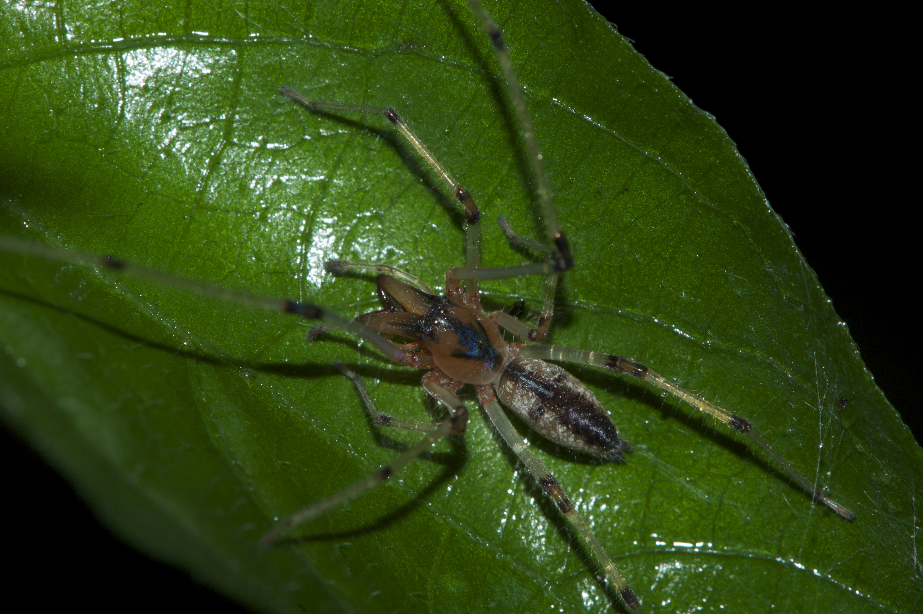 Cheiramiona debeeri from Mariepskop mountain, Mpumalanga province South Africa. They roll leaves and use them as a refuge. This one was found in the Afromontane forest below the cliffs, on the side of the mountain that faces the low-veld.